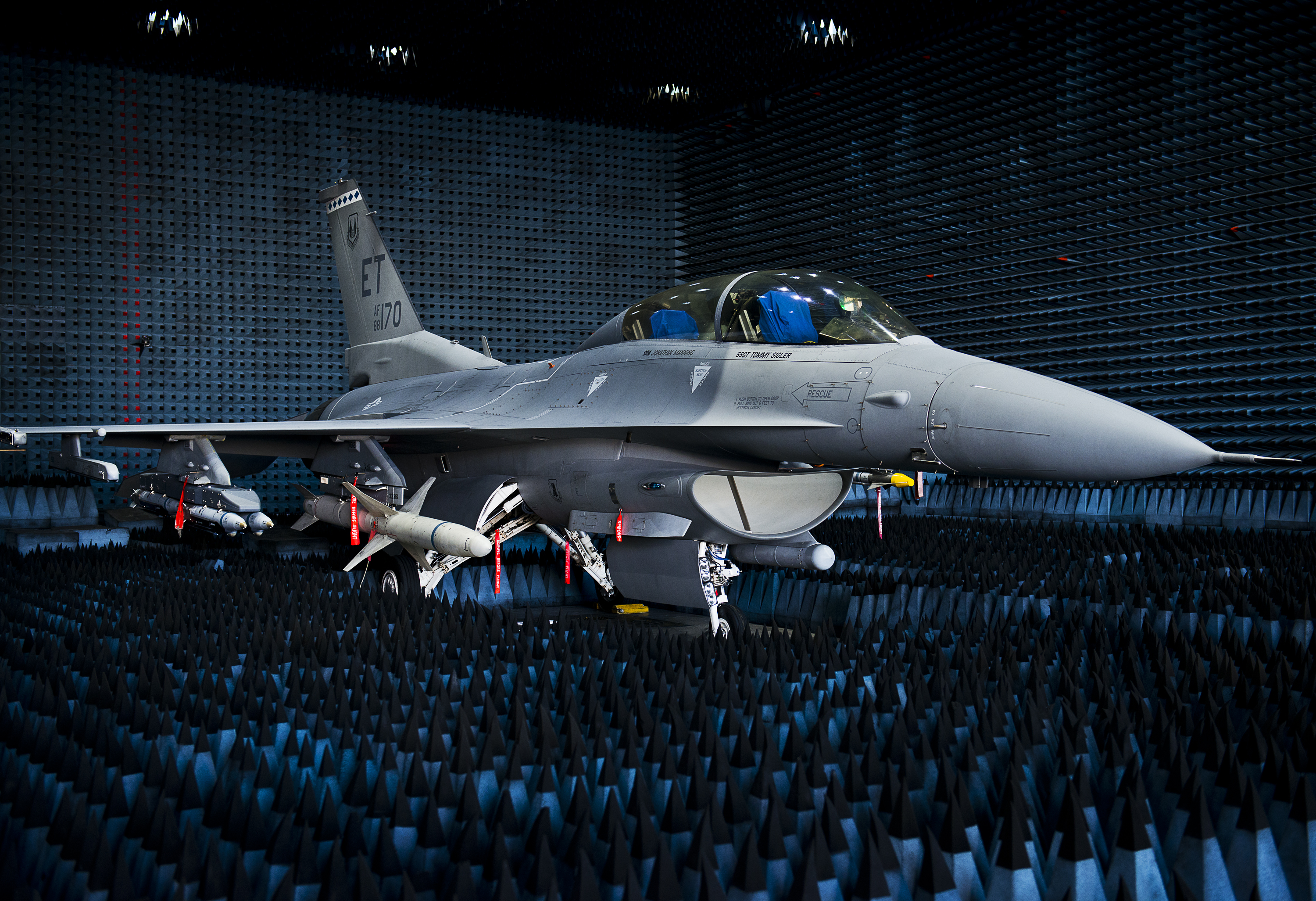 A 40th Flight Test Squadron F-16 Fighting Falcon sits in the anechoic chamber after completion of the initial round of testing simulations on the new M-7 software upgrade Oct. 30, 2014, at Eglin Air Force Base, Fla. The M-7 software package will provide multiple advanced capabilities to the aircraft. The anechoic chamber is a room designed to stop reflections of either sound or electromagnetic waves. The room is insulated from exterior sources of noise. The room is part of a facility that allows testing of air-to-air and air-to-surface munitions and electronics systems on full-scale aircraft and land vehicles prior to open-air testing. (U.S. Air Force photo/Samuel King Jr.)